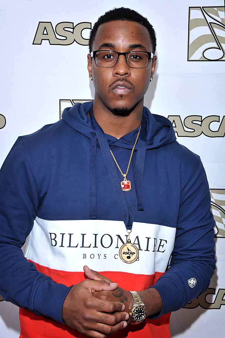 Jeremih, Beverly Hills, California on June 25, 2015 - Photo by Glenn Francis of